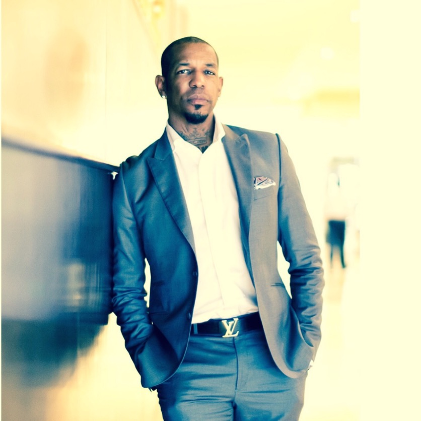 Hefe Wine Image